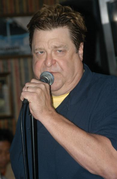 John Goodman, a Golden Globe award winner and Emmy award nominated American actor. Taken at Sardo's weekly porn star karaoke in March, 2006.